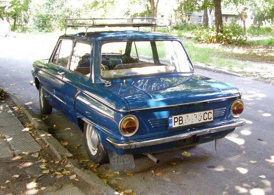 ZAZ-966 parked on a street in Plovdiv.